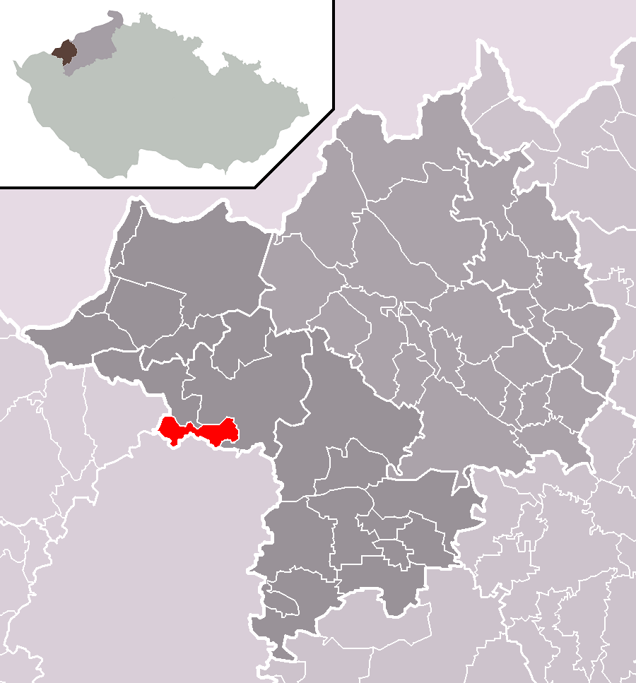 Location of Okounov municipality within Chomutov District and administrative area of Kadaň as a Municipality with Extended Competence.